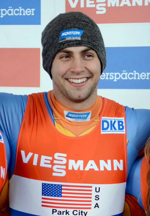 U.S. Army World Class Athlete Program luger Sgt. Matt Mortensen, Chris Mazdzer, Kate Hansen and WCAP Sgt. Preston Griffall display flowers after striking silver in the team relay race at the 2013 World Cup Luge stop Dec. 14 at Utah Olympic Park in Park City, Utah. Later that day, all four were named to the U.S. Olympic Luge Team that will compete at the 2014 Olympic Winter Games in Sochi, Russia. U.S. Army photo by Tim Hipps, IMCOM Public Affairs